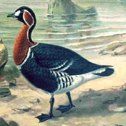 redbreasted goose Image from